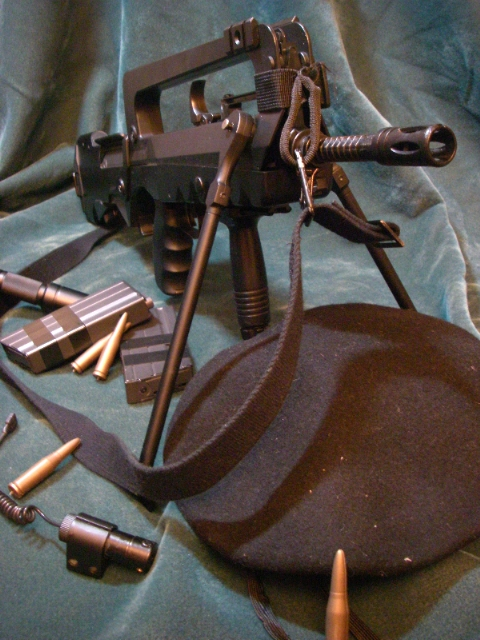 Tokyo Marui Famas F1 Airsoft Gun in a display scene.